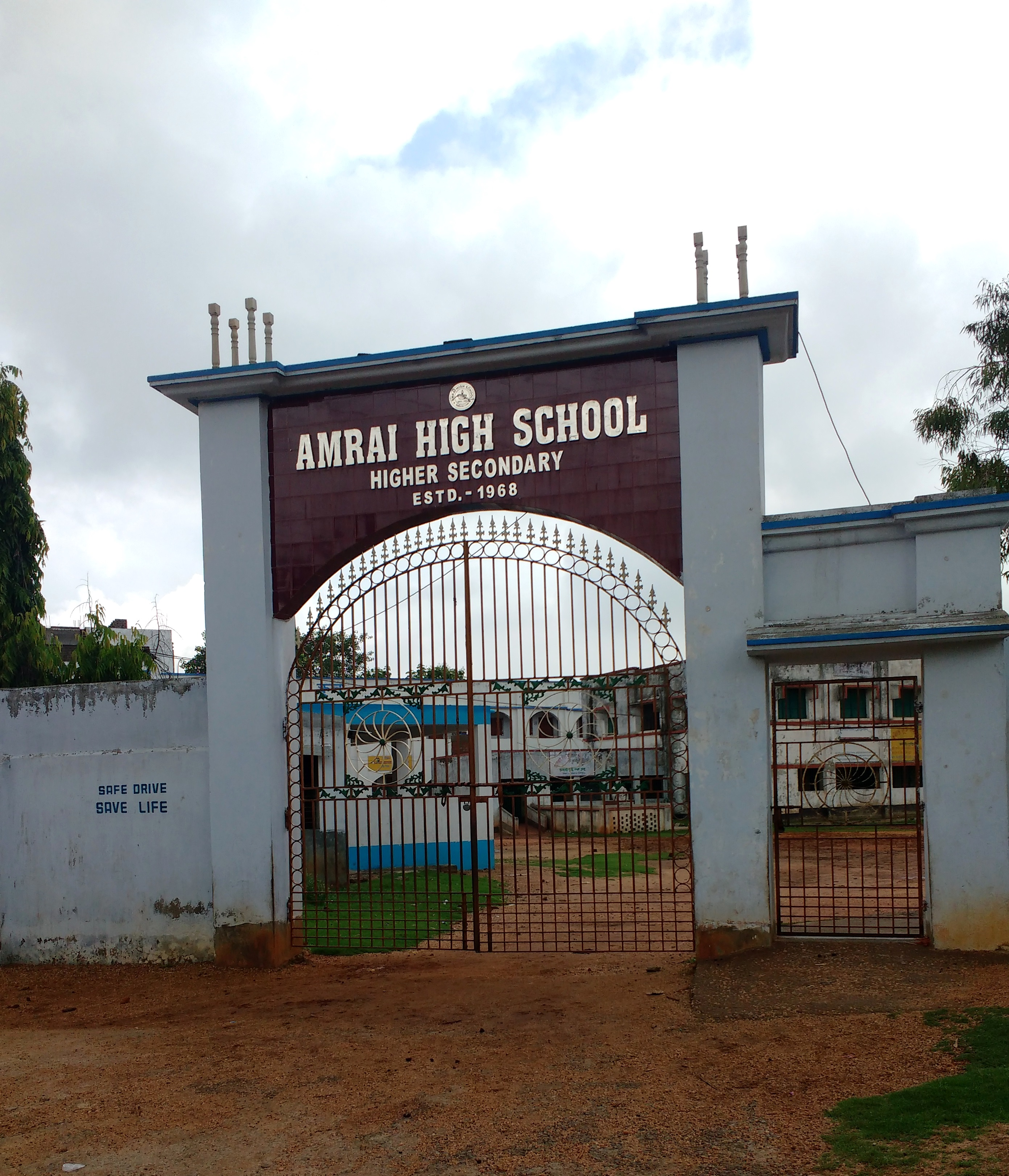 Amrai High School